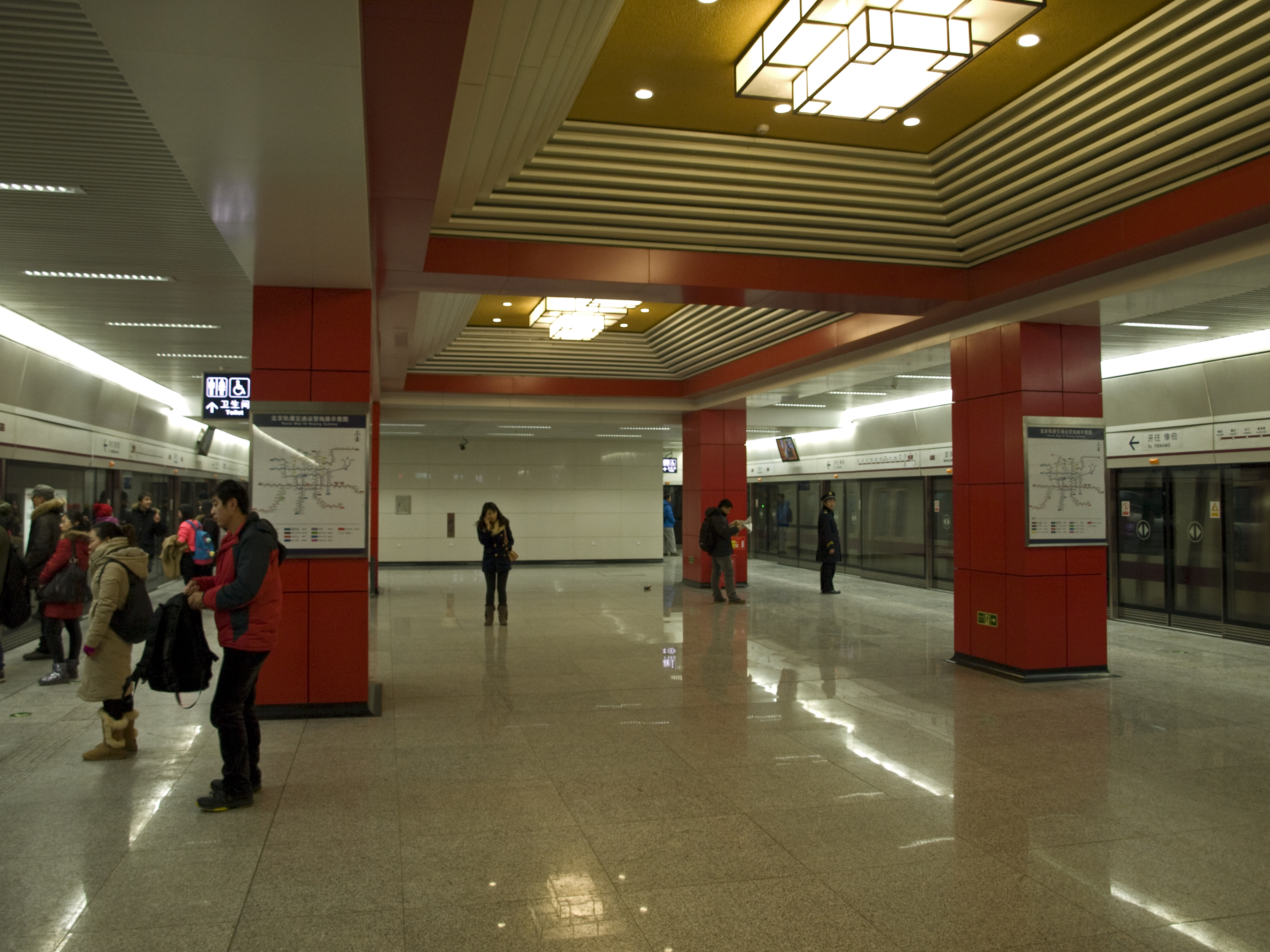 Wangjing station, Beijing Subway